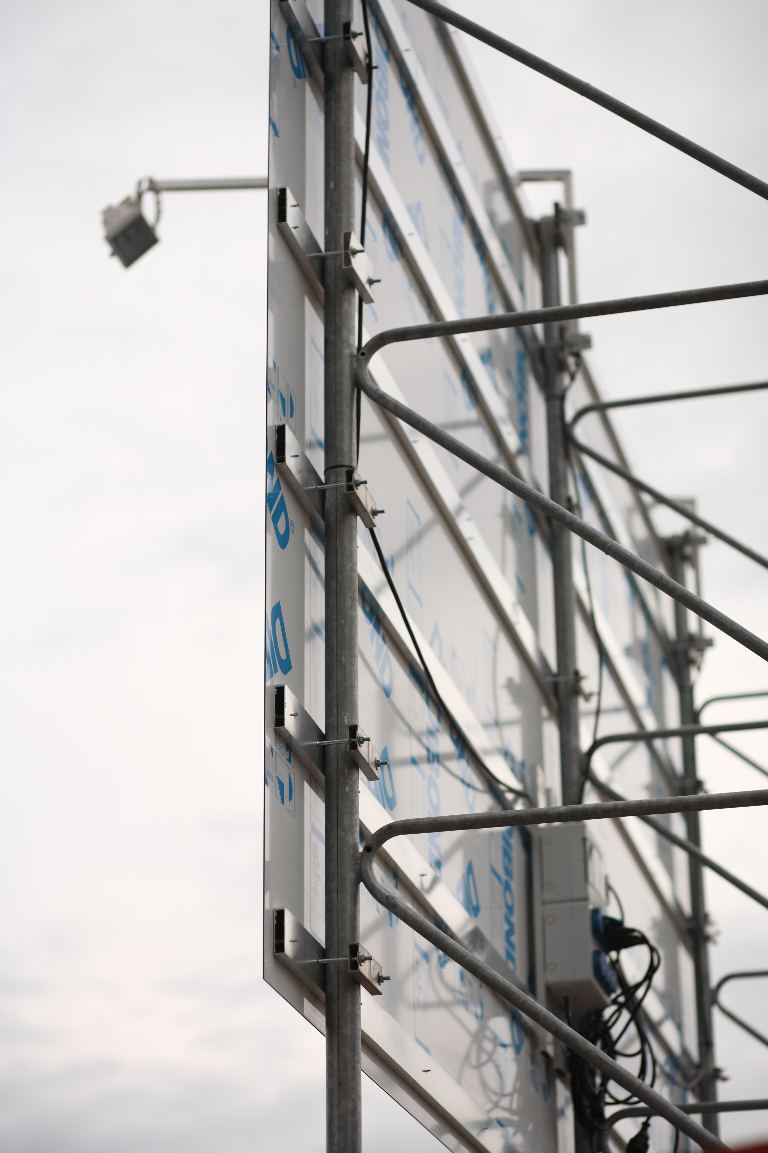 Detail view of a Dibond construction site panel located at the excavation pit of the future hotel "Steigenberger am Kanzleramt" next to Berlin central and Lehrter train station